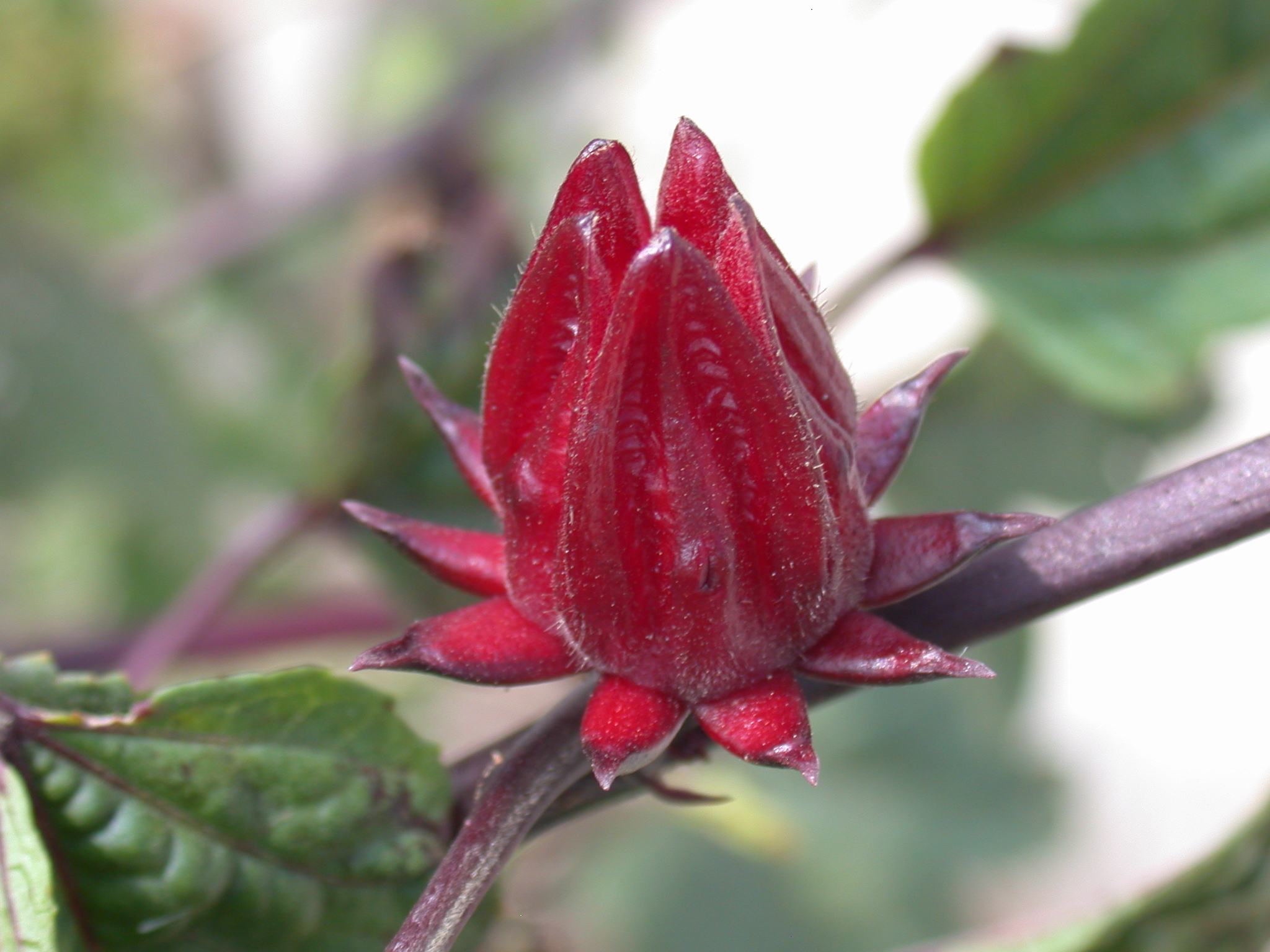 calyxes of Hibiscus Sabdariffa in the garden of World Vegetable Center, Taiwan